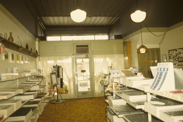 An interior view of the Rickeman Grocery Building in Racine, Wisconsin, taken in October 1980 by R. Anderson for the National Park Service. Image filed Jan. 29, 1982. Color photo provided by the Wisconsin Historical Society.